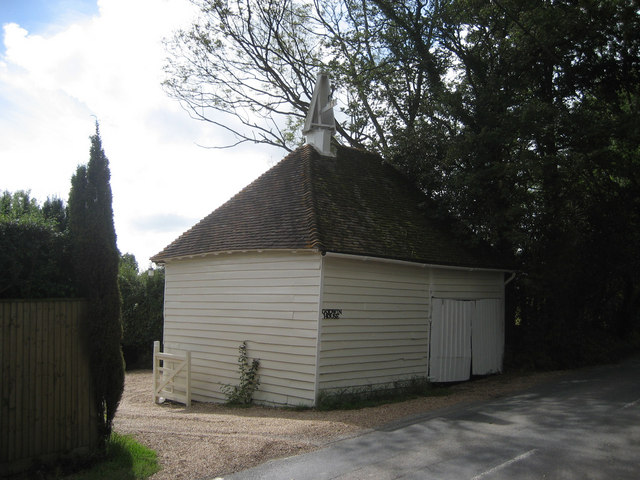 Oast House at Godwin House, Golford, Nr Sissinghurst, Kent. Thought to be built around 1740, this is most likely the oldest oast house in existence. Sissinghurst and neighbouring Benenden and Cranbrook have most of the oldest oast houses built from the mid 1700s. They are distinguished by the cowl coming out the middle of the building as initial oasts were merely converted from existing barns.